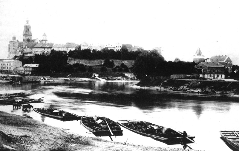 Wawel, Kraków. Photo taken by Ignacy Krieger children: Natan or Amalia.